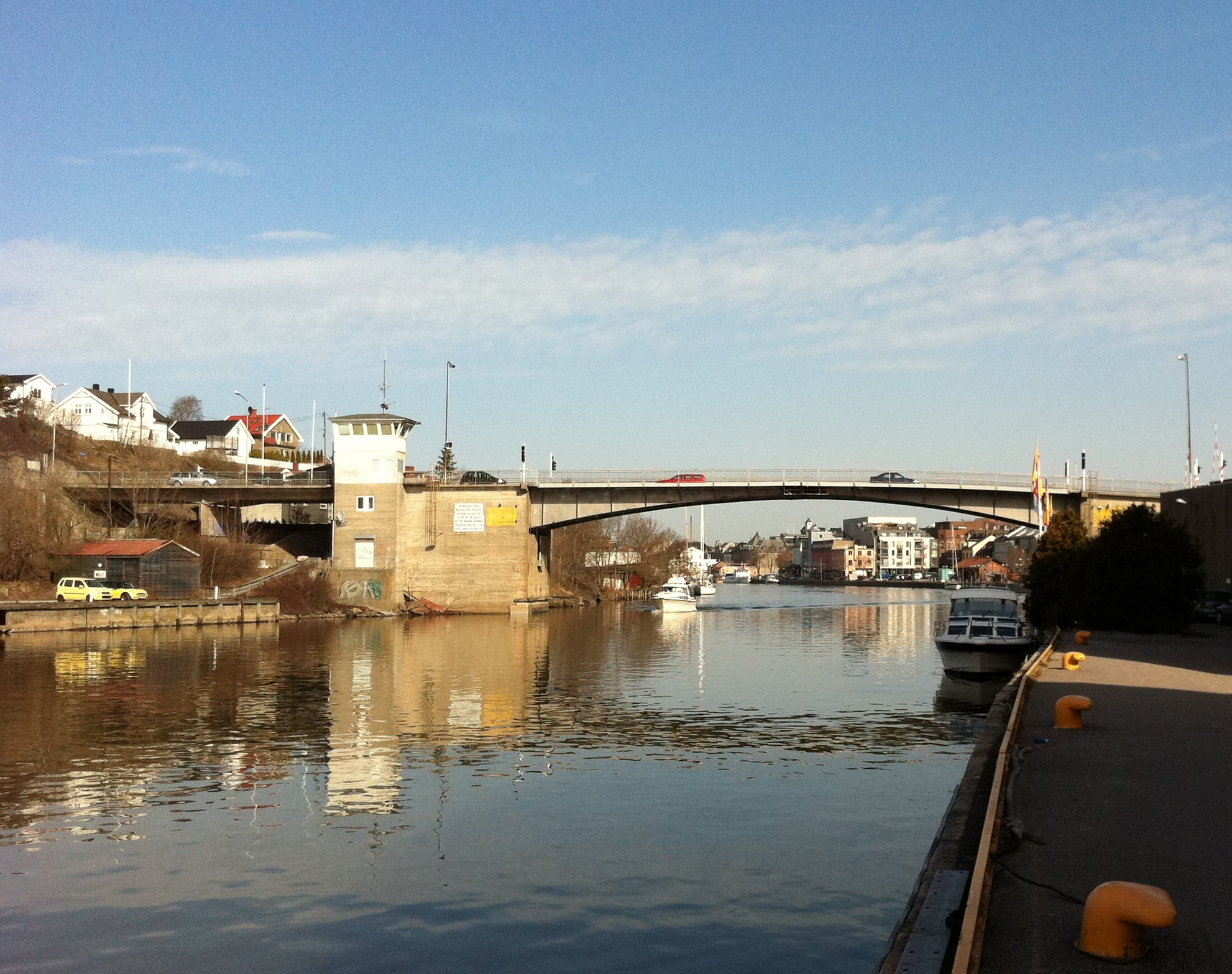 The bridge Kråkerøybrua in Fredrikstad, Østfold